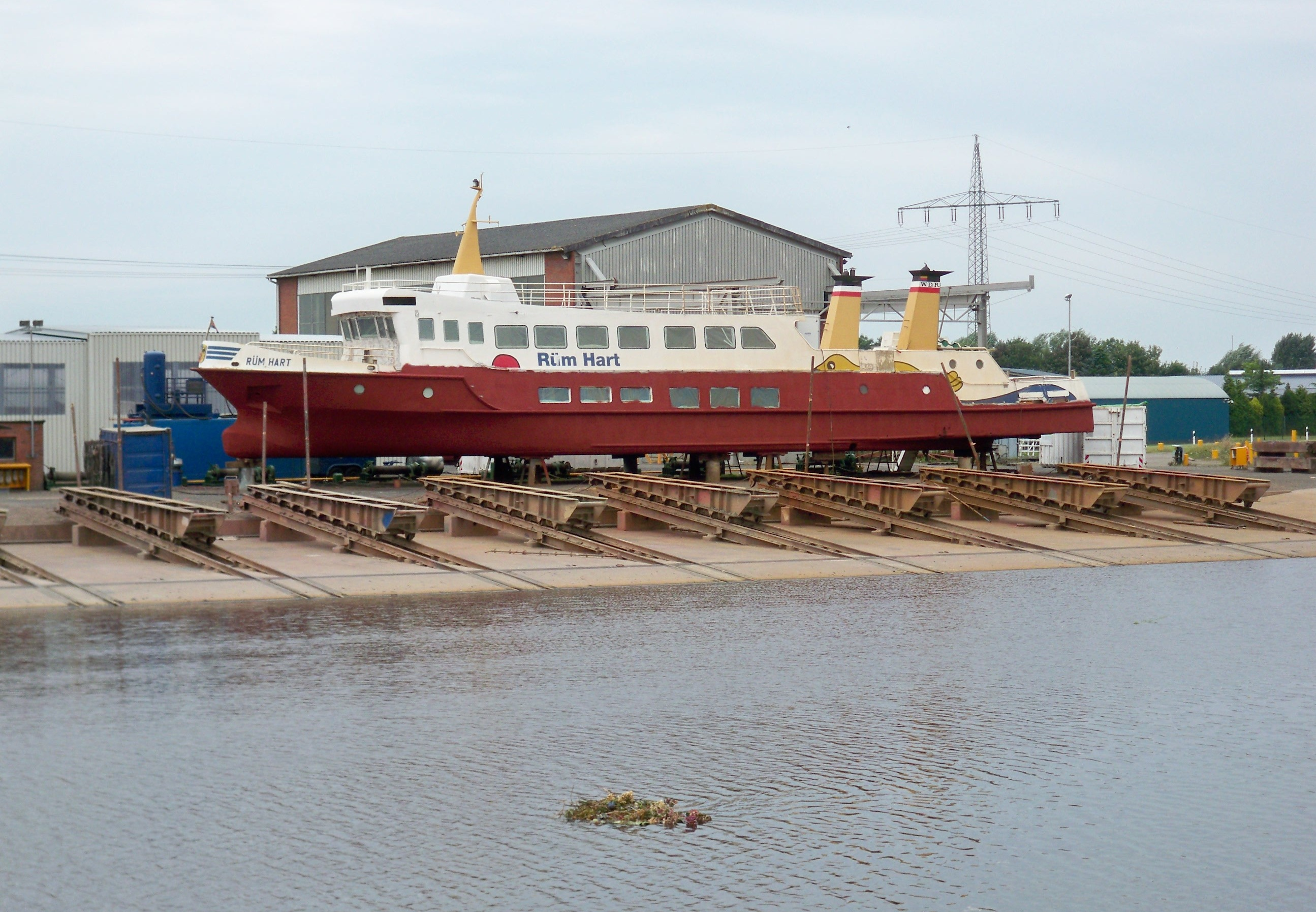 Passenger ship Rüm Hart undergoing overhaul at Schiffswerft Diedrich